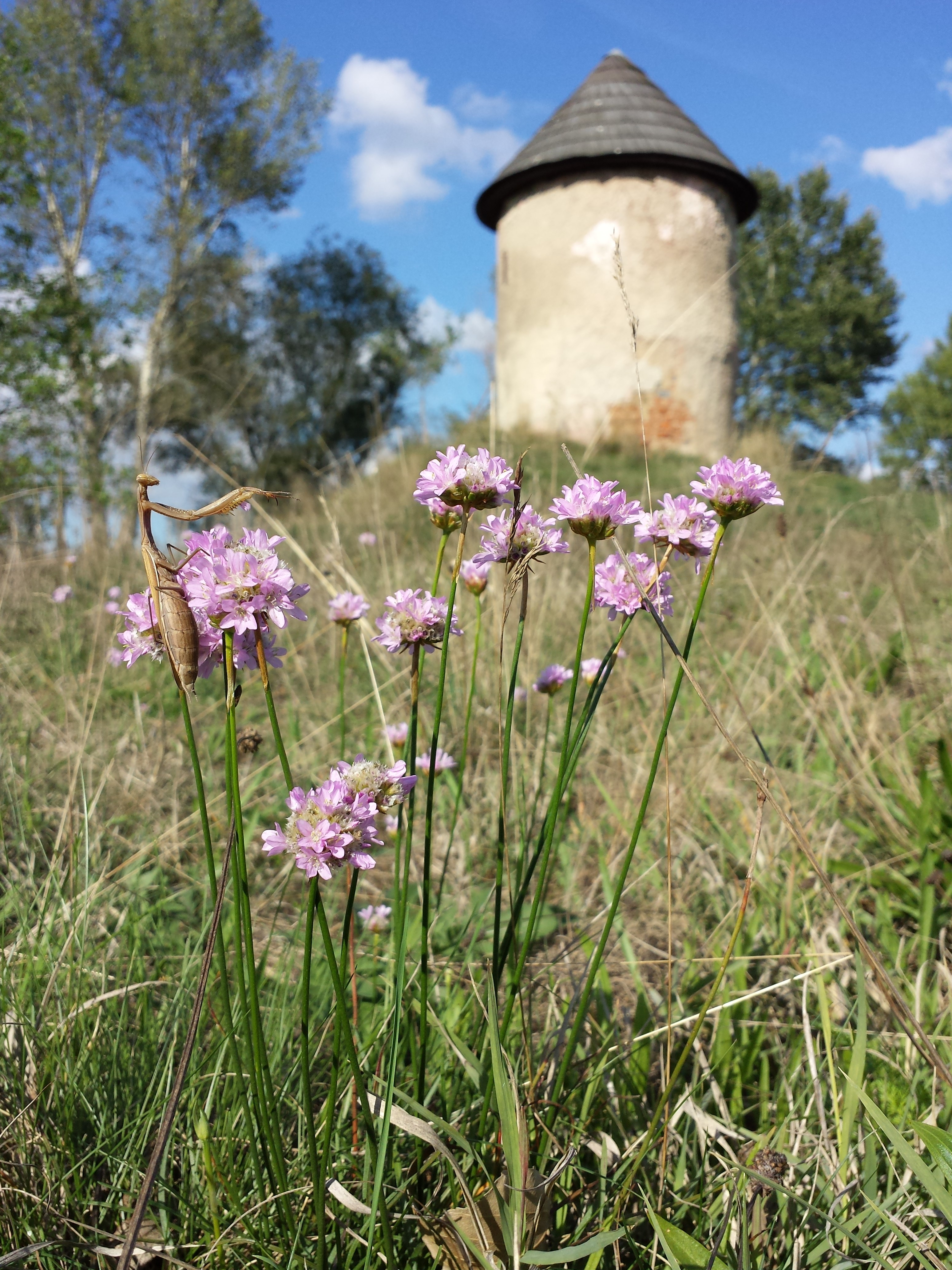 Habitus Taxonym: Armeria elongata ss Fischer et al. EfÖLS 2008 ISBN 978-3-85474-187-9 Location: Pulverturm near Marchegg, district Gänserndorf, Lower Austria - ca. 140 m a.s.l. Habitat: dry grassland This media shows the natural monument in Lower Austria with the ID GF-058.